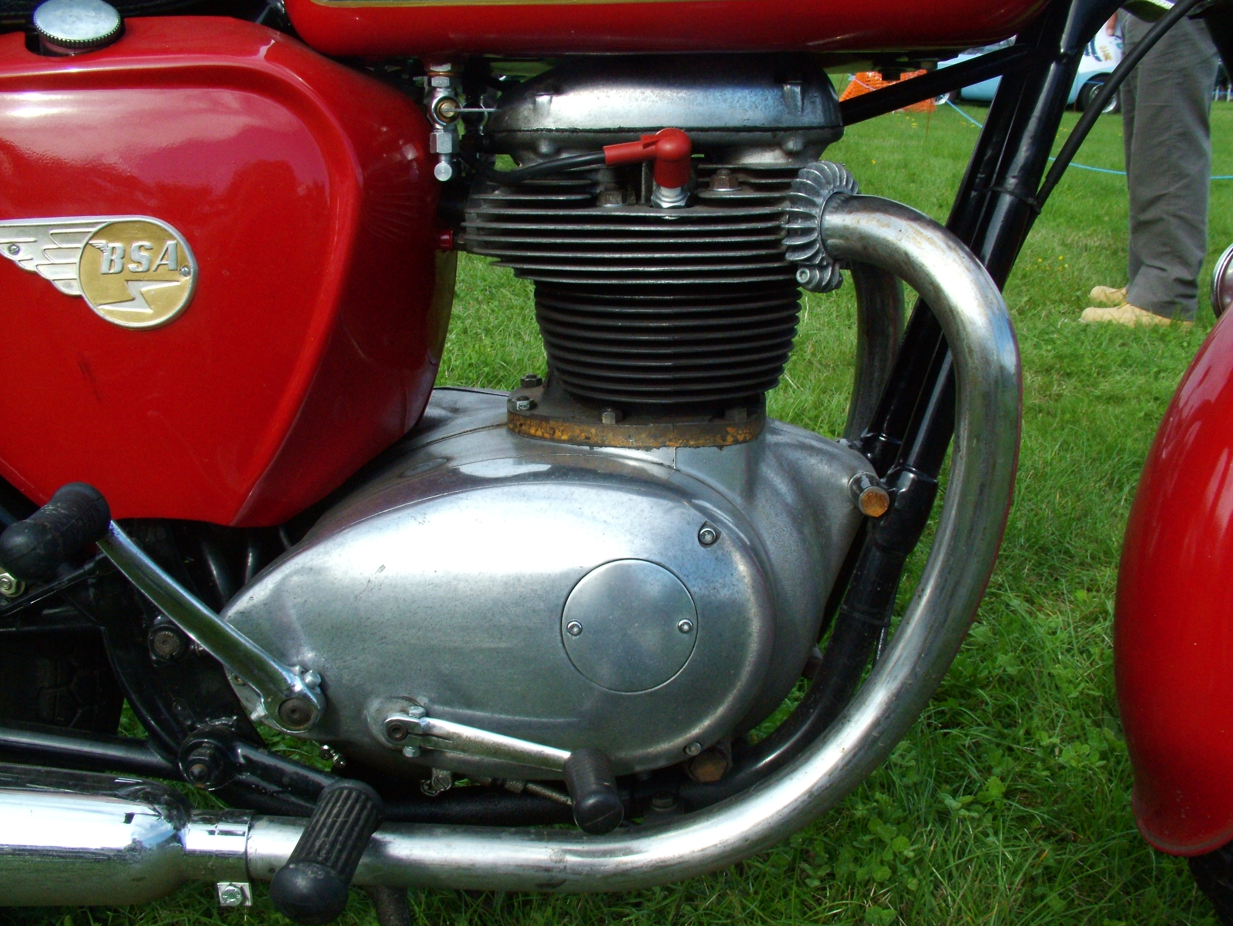 A65 engine 1963 BSA A65 650cc Twin Unit construction